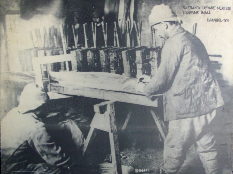 Production of propeller for Flight School at Safraköy